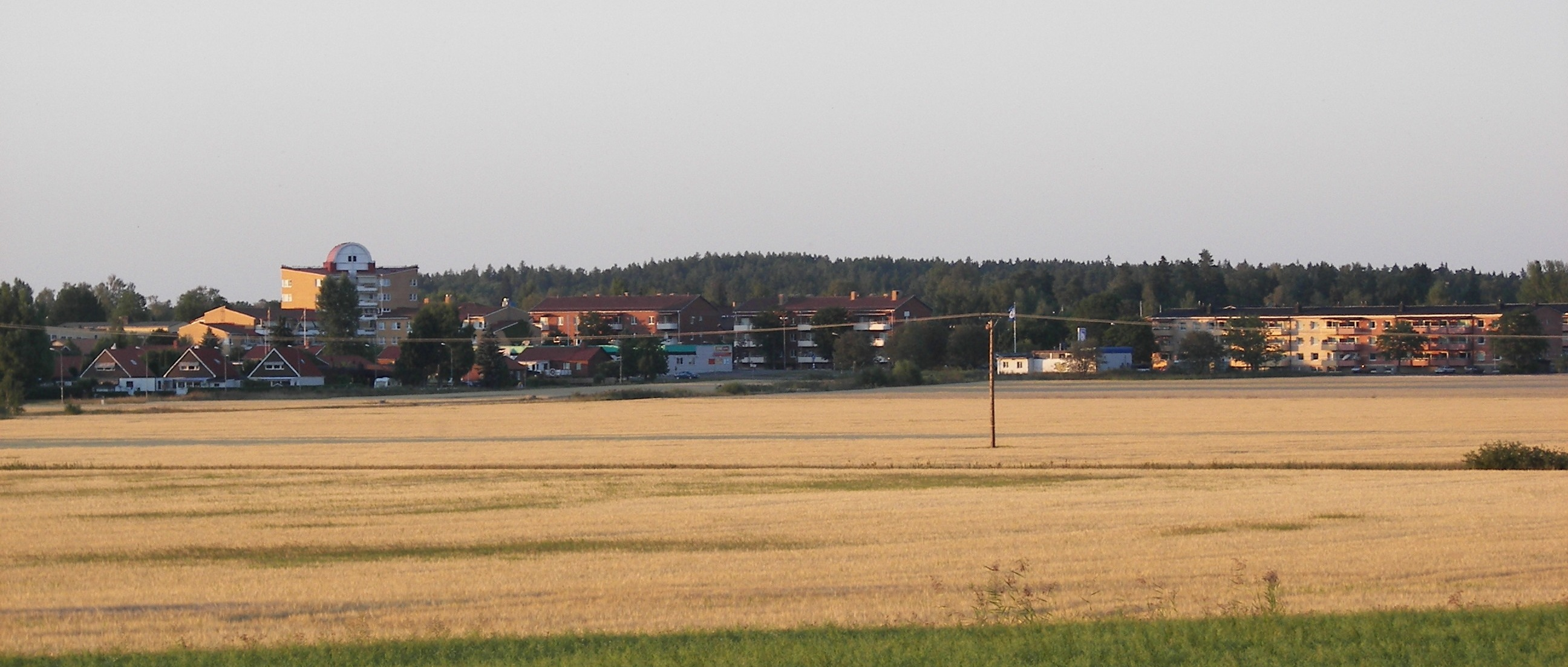 Tillberga as seen from Hubbo church yard, Sweden